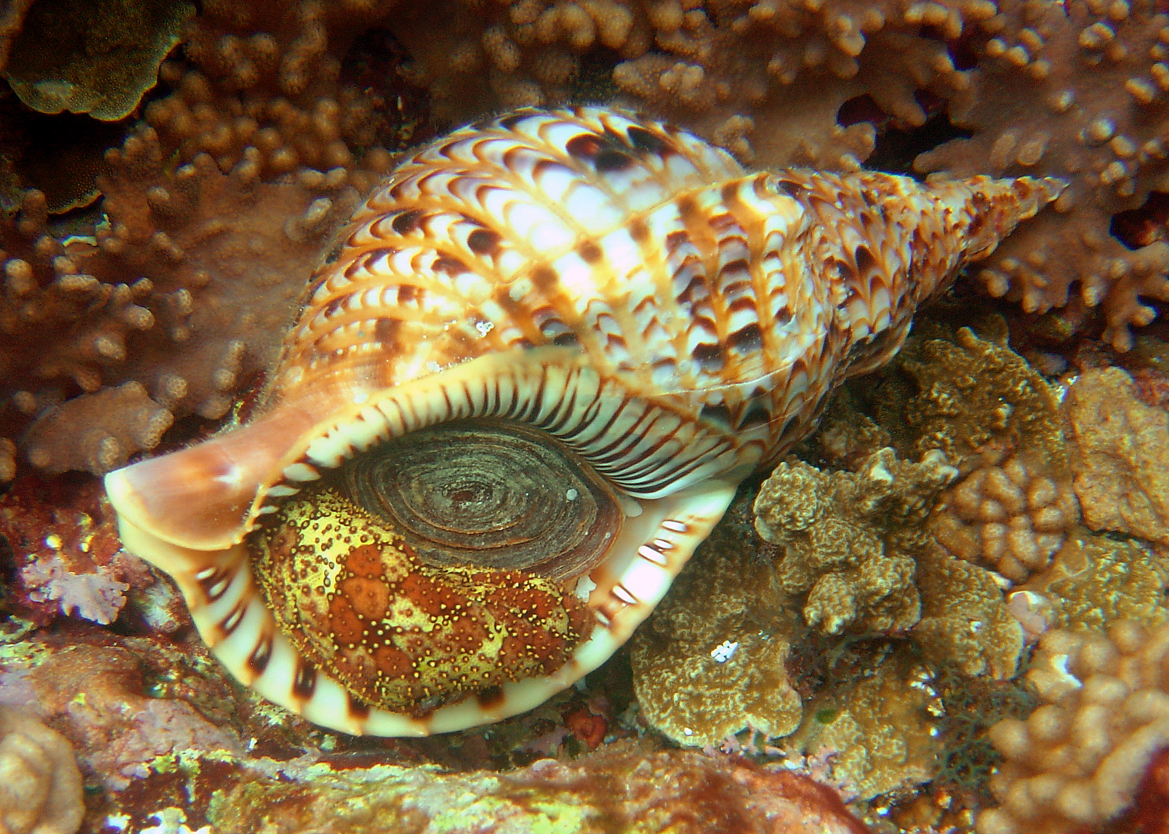 Charonia tritonis in Guam, Mariana Islands. There is also sea cucumber.